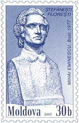 Stamp of Moldova